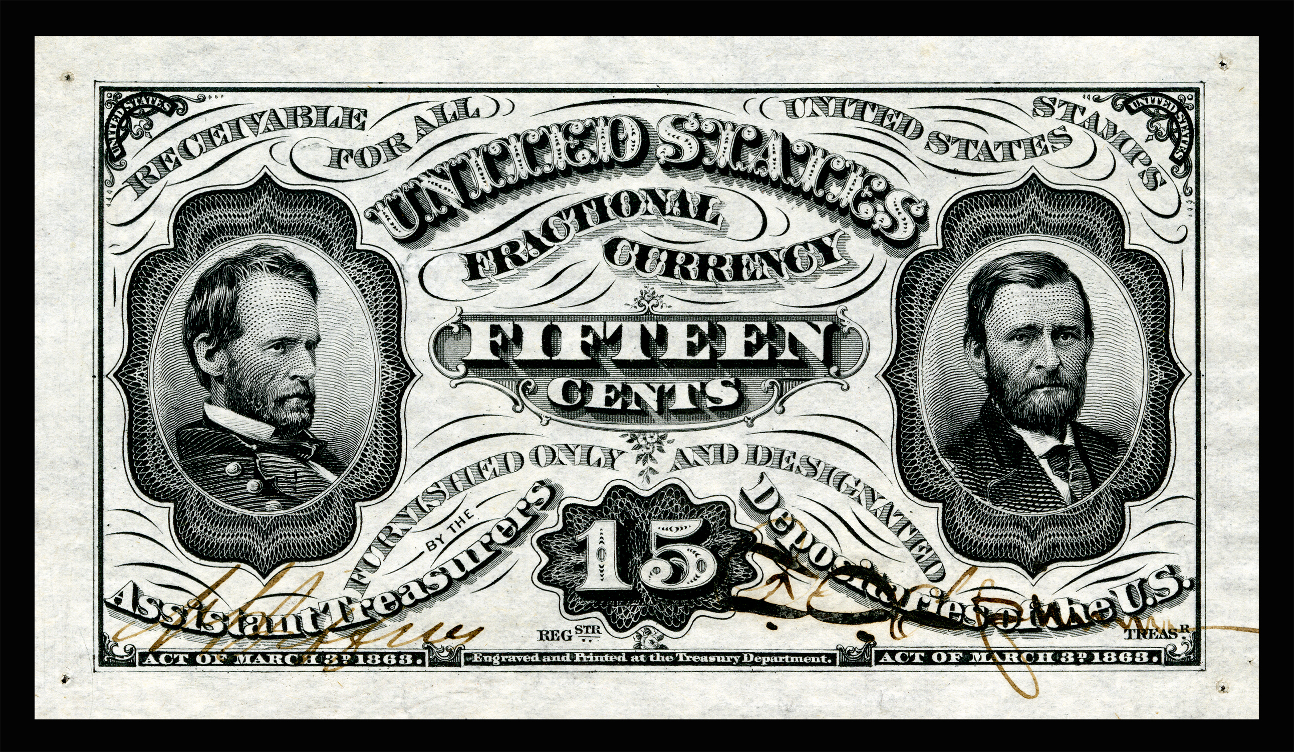 Fractional Currency was introduced by the United States Federal Government following the Civil War. These notes were in use between 21 August 1862 and 15 February 1876, and could be redeemed by the U.S. Postal Service for the face value in postage stamps. Fractional notes were issued in 3, 5, 10, 15, 25, and 50 cent denominations. This specimen note depicts Sherman and Grant and was never issued for circulation due to an act of Congress on 7 April 1866 preventing the likeness of any living person from being depicted on circulating currency.